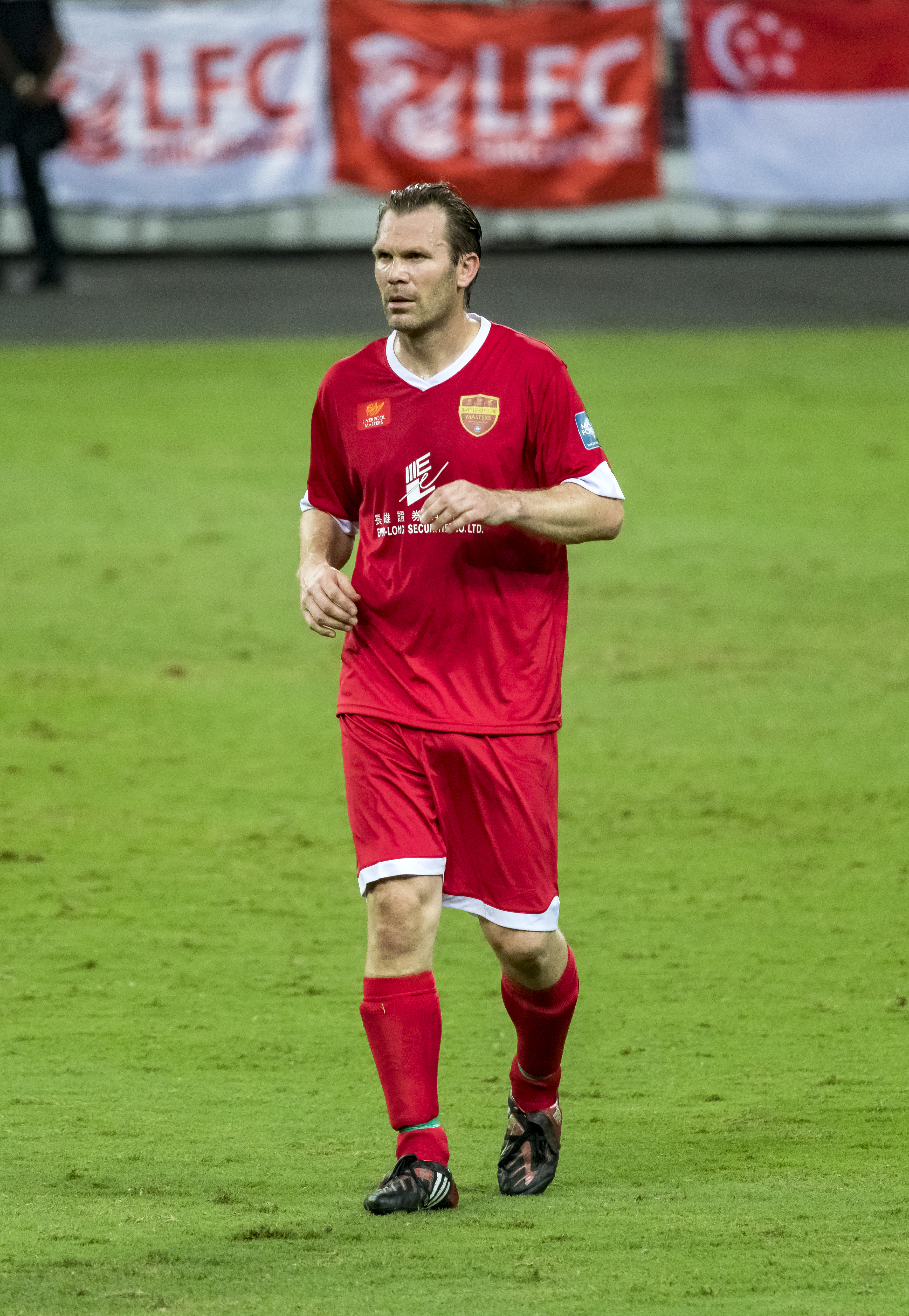 Bjørn Tore Kvarme liverpool masters singapore national stadium 2017